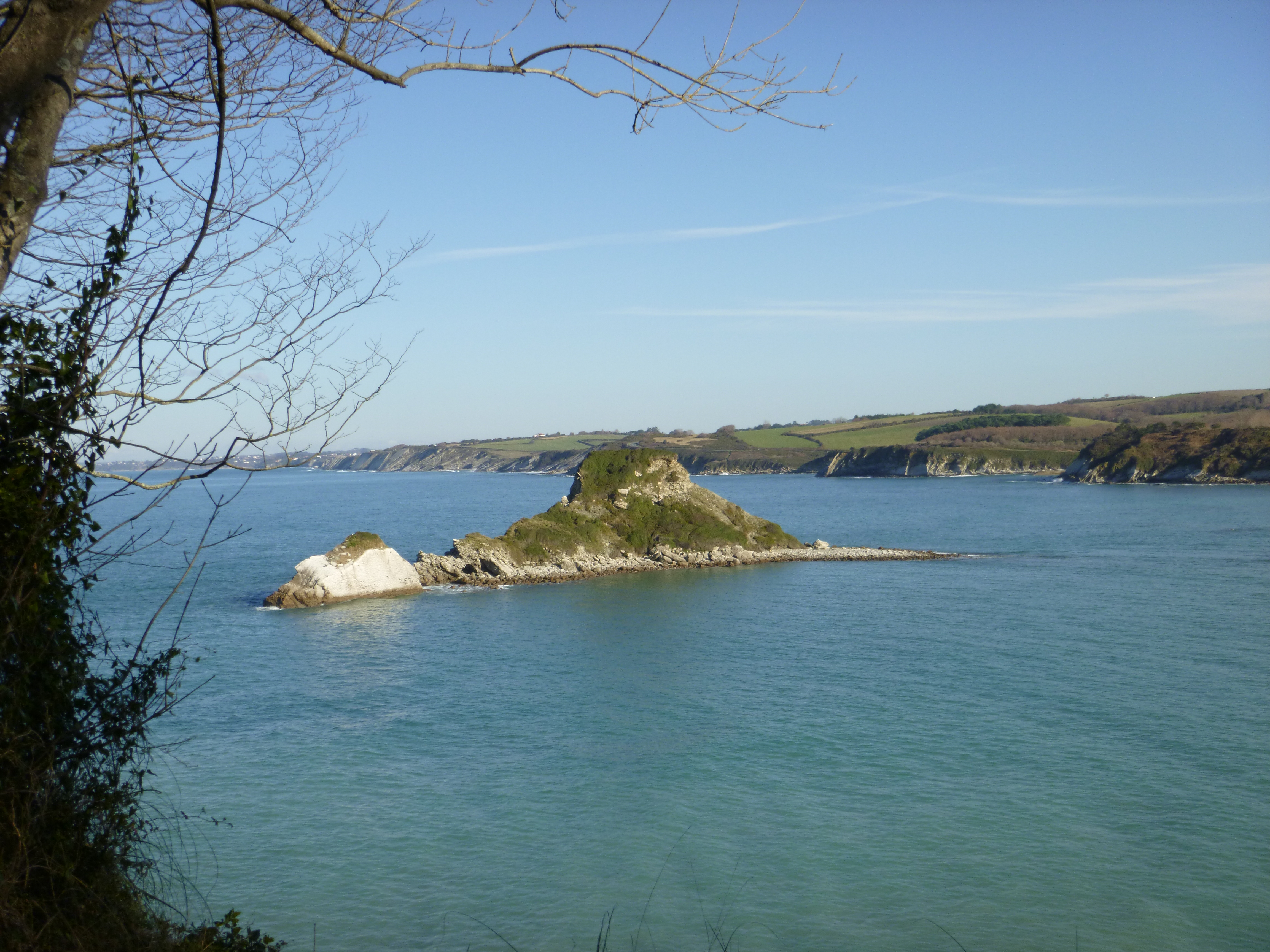 Lohia bay in Abbadia